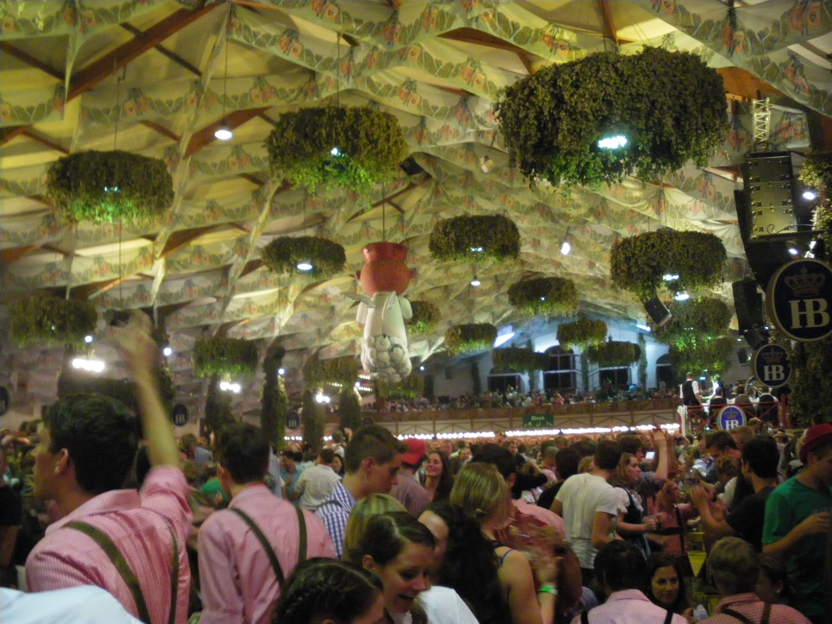 Indoor of Hofbräu-Festzelt, Oktoberfest 2011